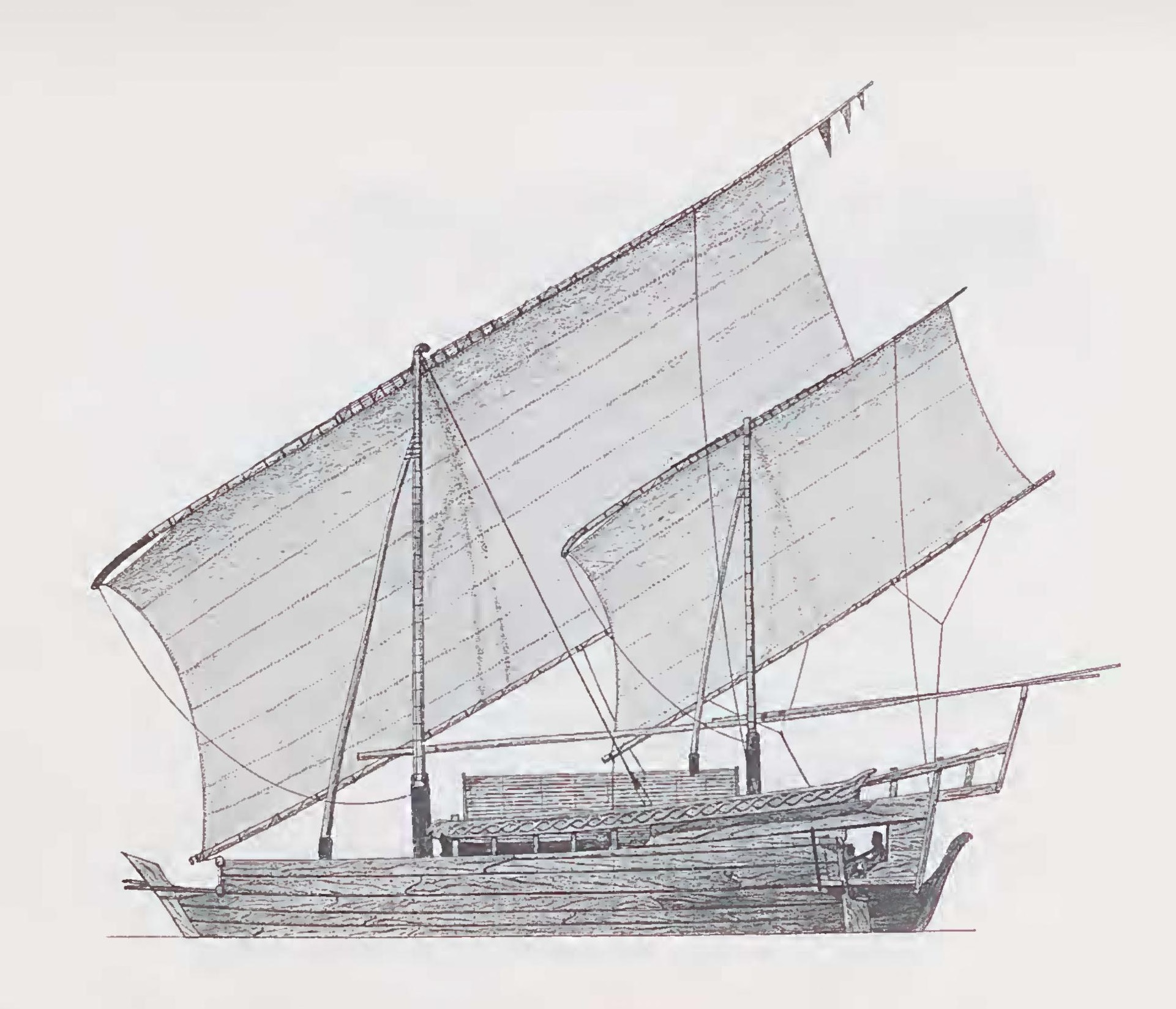 Figure 21. Reconstructed appearance of a 19th century Makassan perahu padewakang.